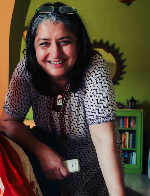 Smita Bharti in Delhi